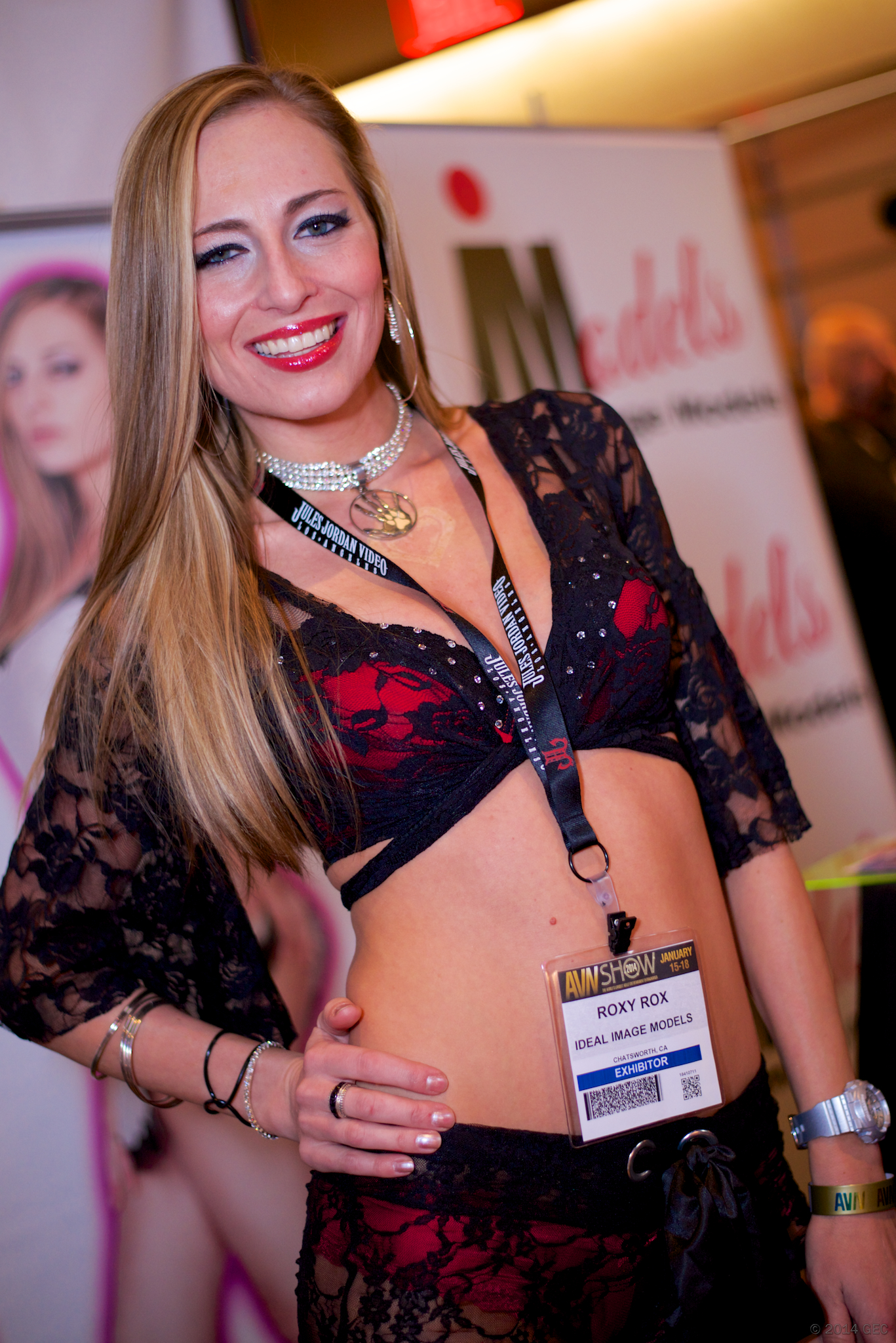 2014 AVN Adult Entertainment Expo AEE at Hard Rock Hotel - Las Vegas. 2014 © GEC.